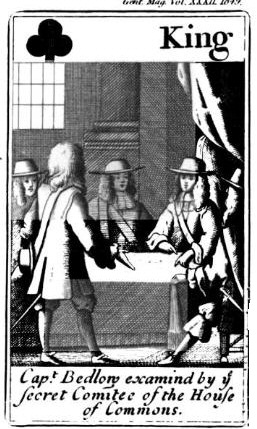 Popish Plot Playcard 1